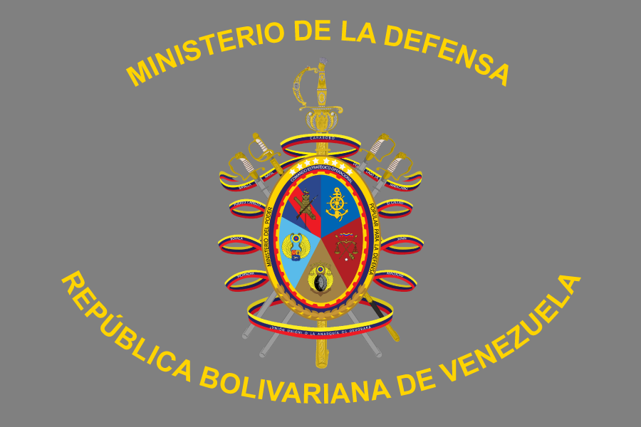 Flag of the Venezuelan Ministry of Defense